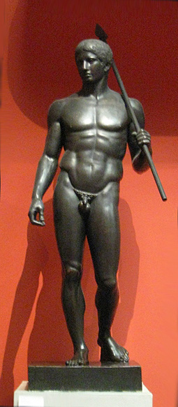 Polykleitos, The Doryphoros. Cast in Pushkin Museum, Moscow. The original in marble was found in the Palestra Sannitica in Pompeii, and is now in the Museo Archeologico in Naples.